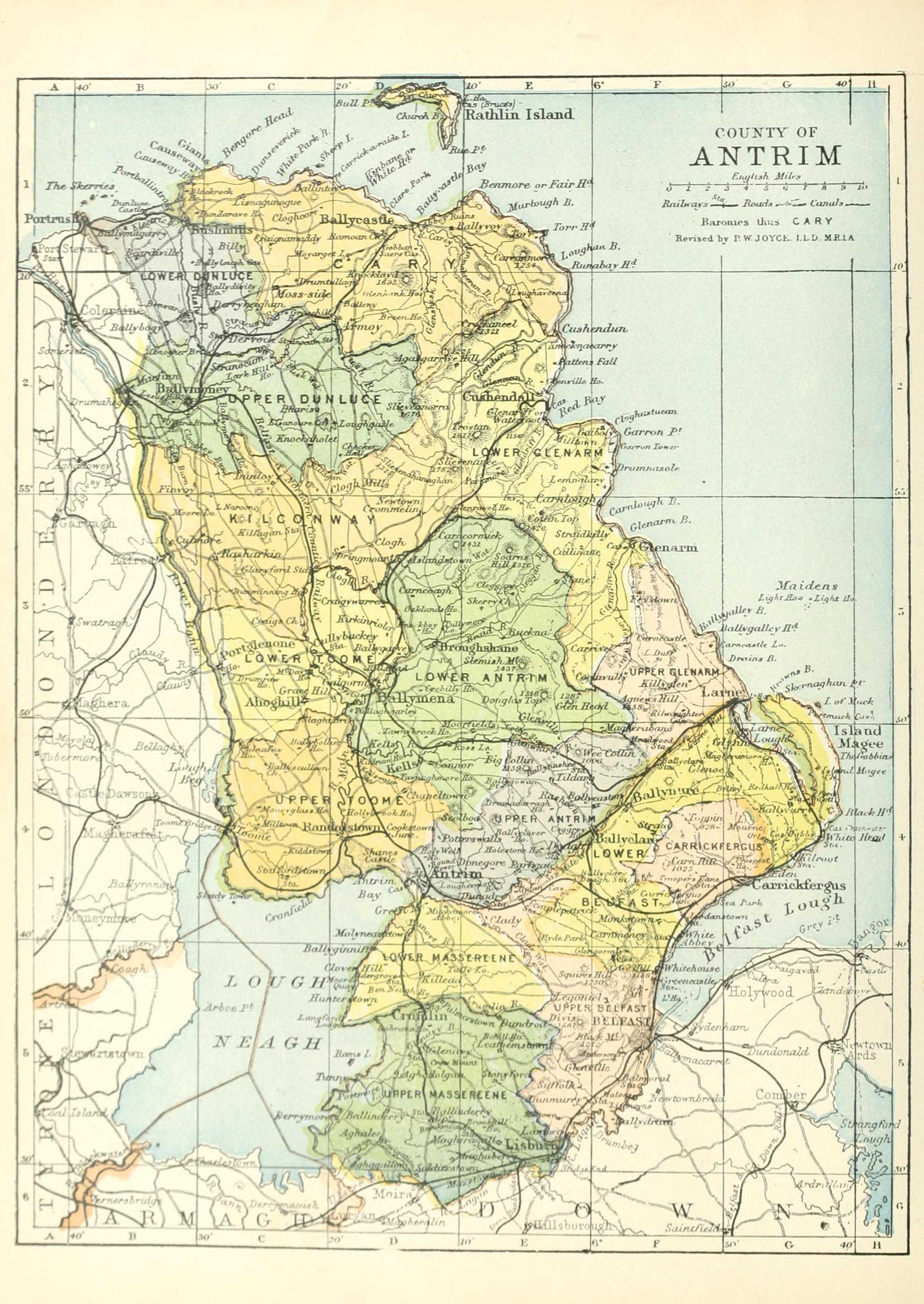 Map of the baronies of County Antrim in Northern Ireland; taken from Atlas and cyclopedia of Ireland, p.19